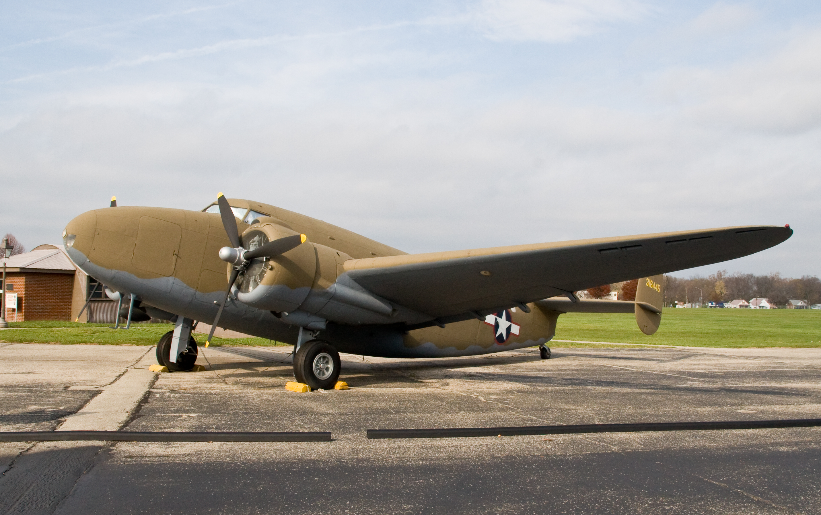 Lockheed Lodestar at the National Museum of the United States Air Force.